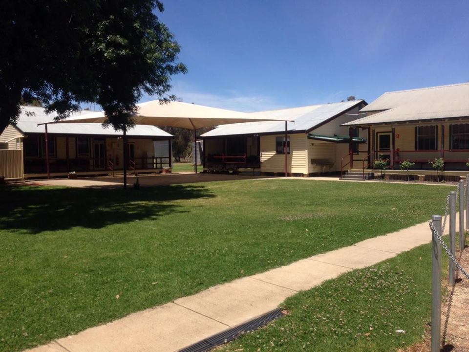 The Years 3/4 Classroom, K/1/2 Clasroom, and Art Room (former Library and original Classroom) of Bunnaloo Public School (L-R)